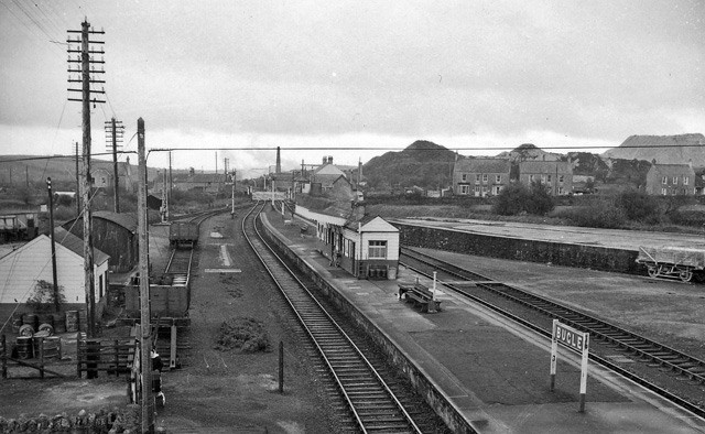 Bugle Station. View SE, towards Par; ex-Great Western, Par - Newquay line. (Note the china-clay waste-tips).